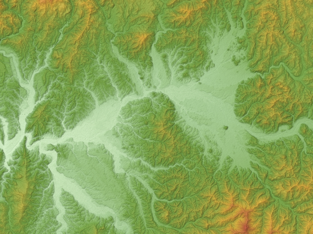 Takasu Basin (left) & Ōdate Basin (right) in Akita Prefecture, Honshu, Japan.